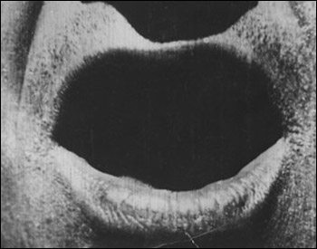 Extreme Close-up from the movie "The Big Swallow" (1901), produced and directed by James Williamson (1855-1933)